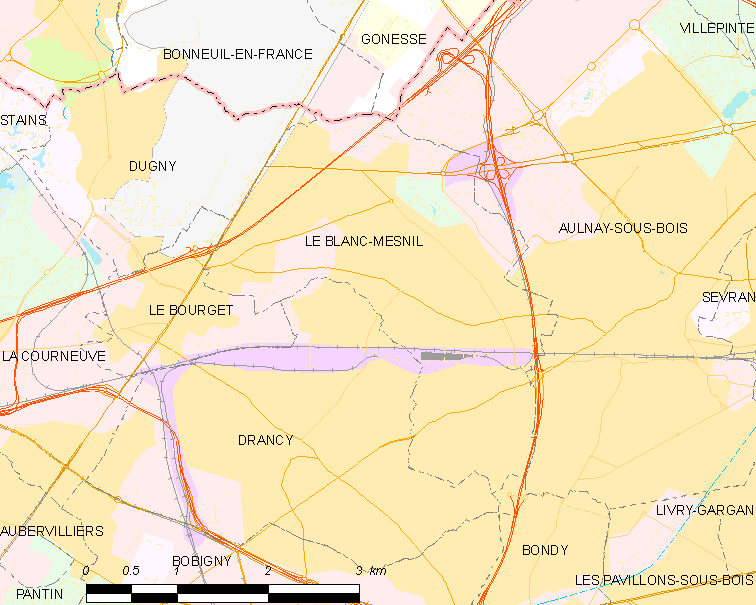 Map of French municipality Le Blanc-Mesnil